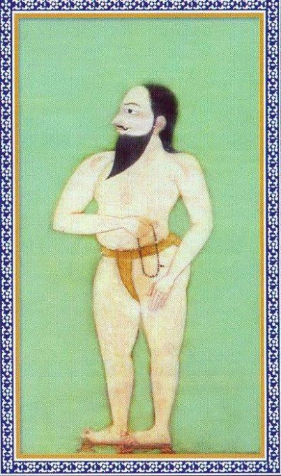 samarth ramdas swami original by meru swami